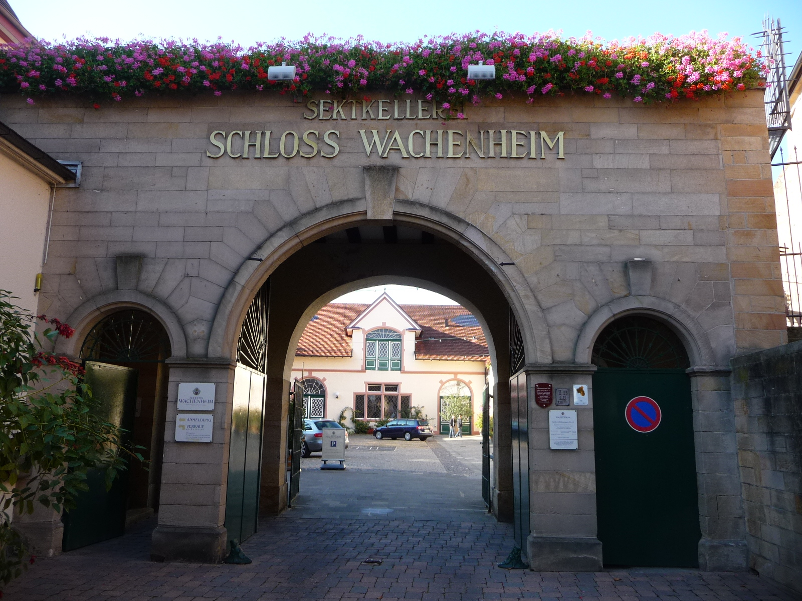 Schloss Wachenheim